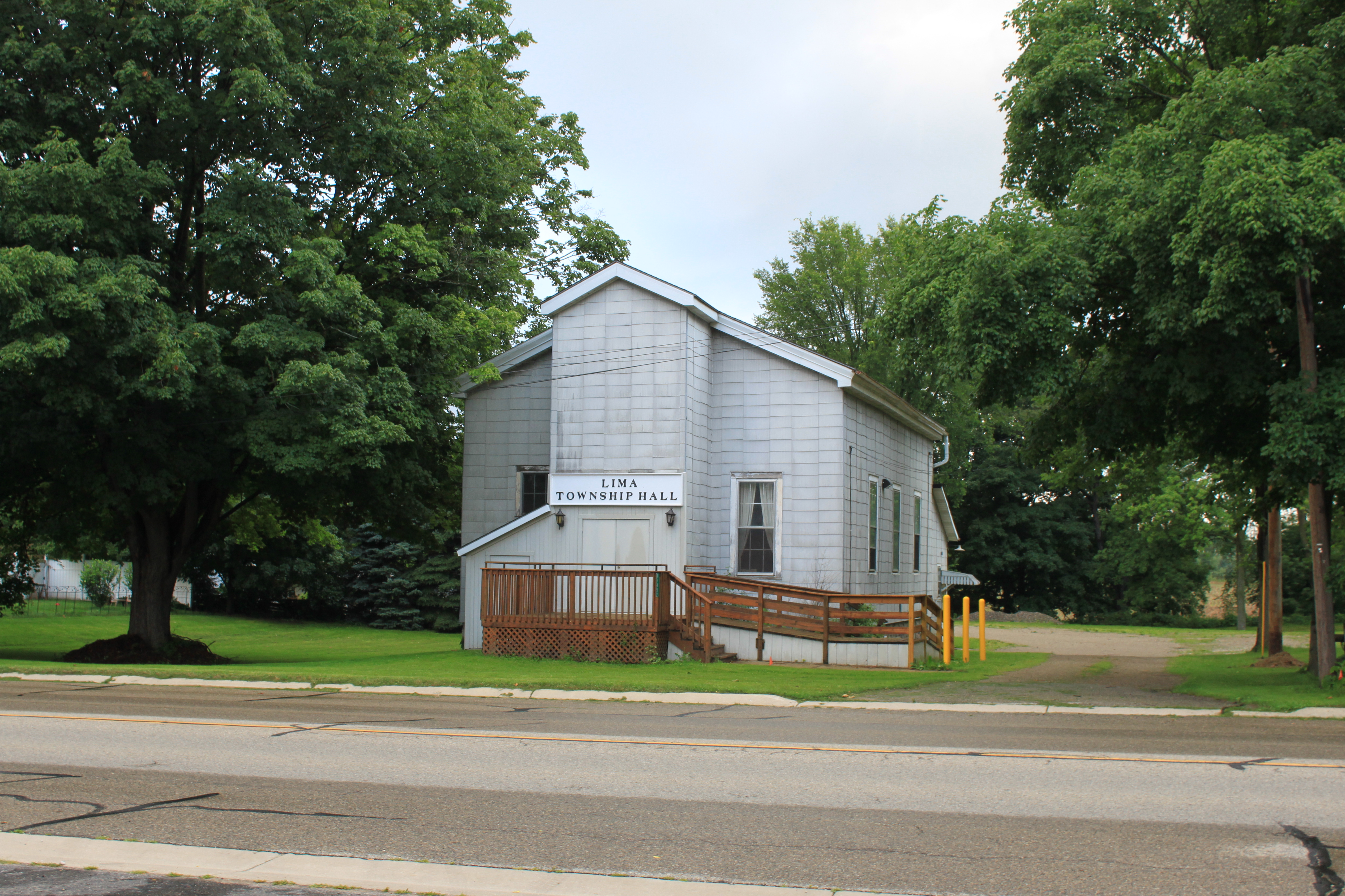 Lima Township Hall, 12172 Jackson Road, Michigan